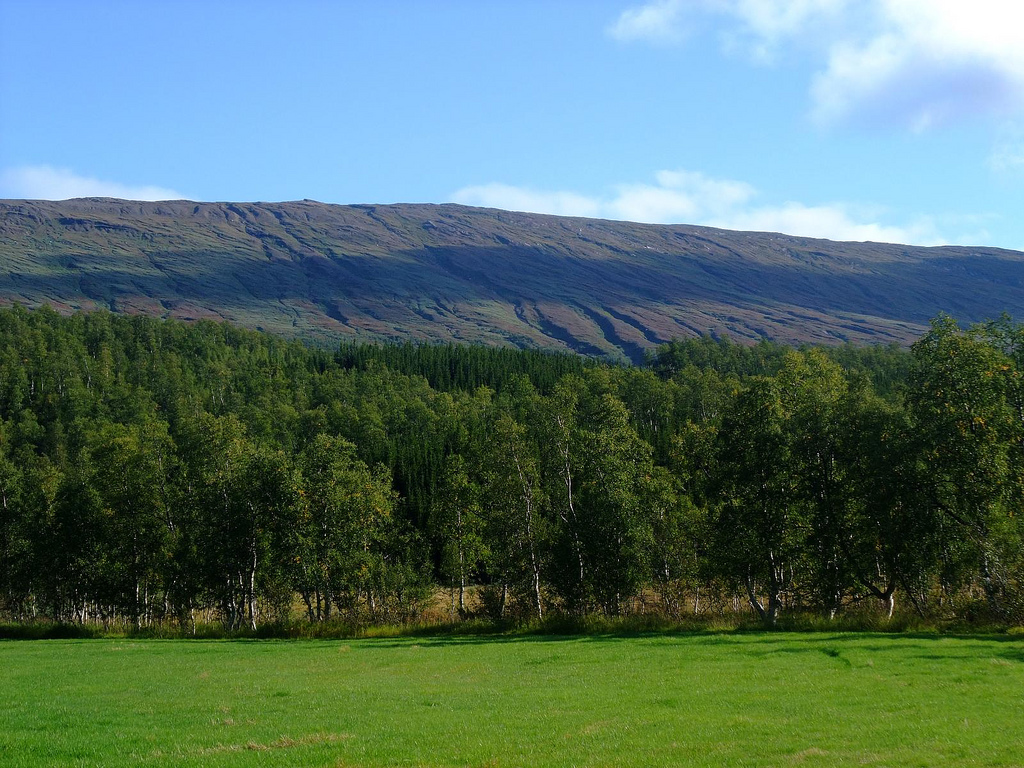 View towards Storfjellet mountain; Junkerdal National Park.